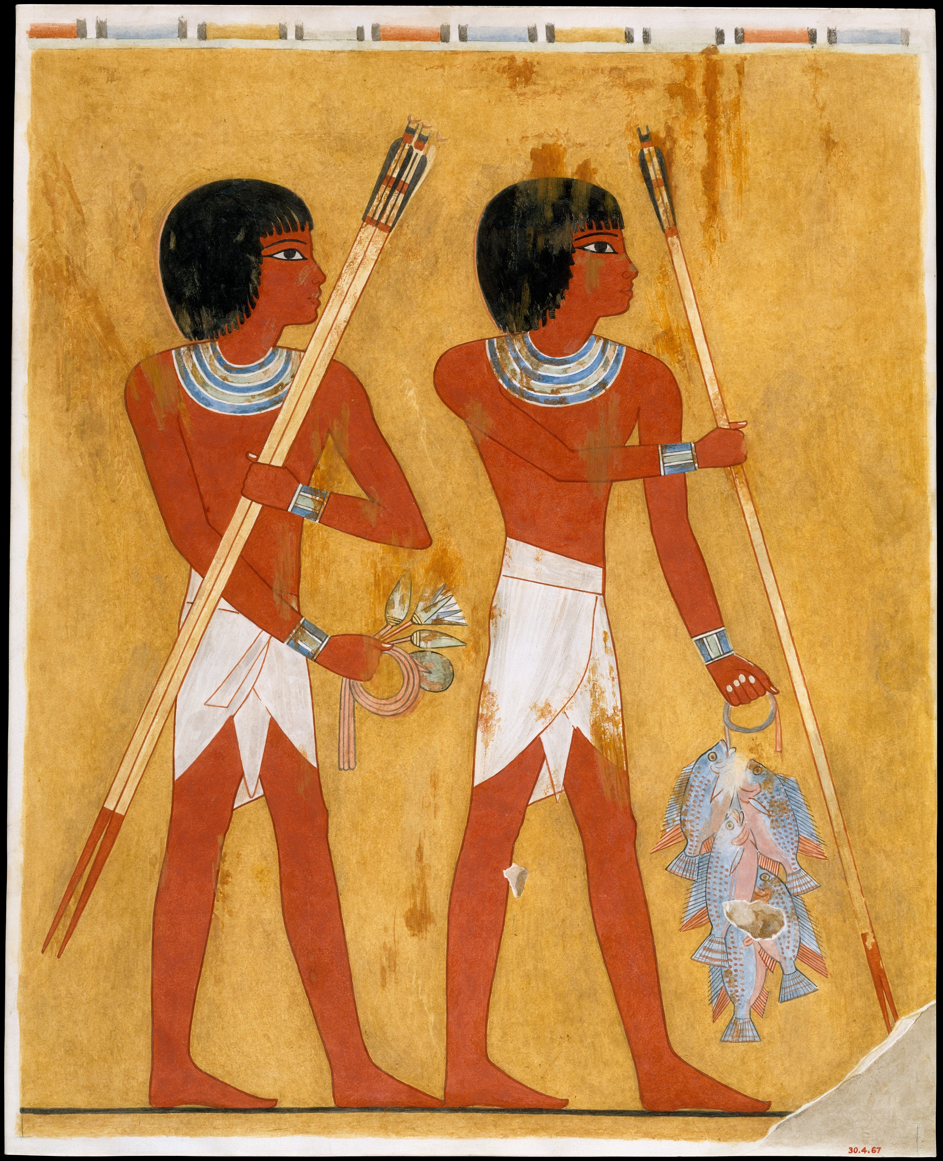 Facsimile, Qenamun (TT 93), fishing